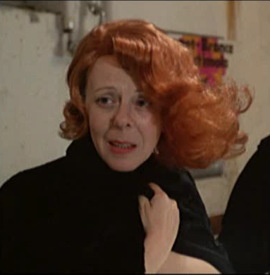 Italian actress Liù Bosisio in a scene of the film Fantozzi